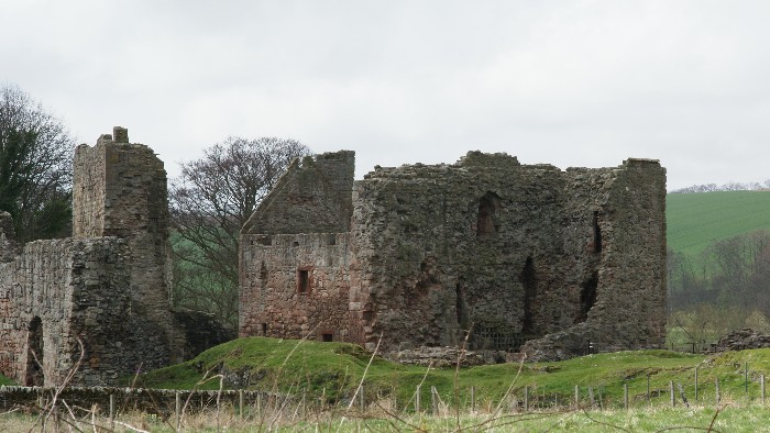 Hailes Castle, Scotland